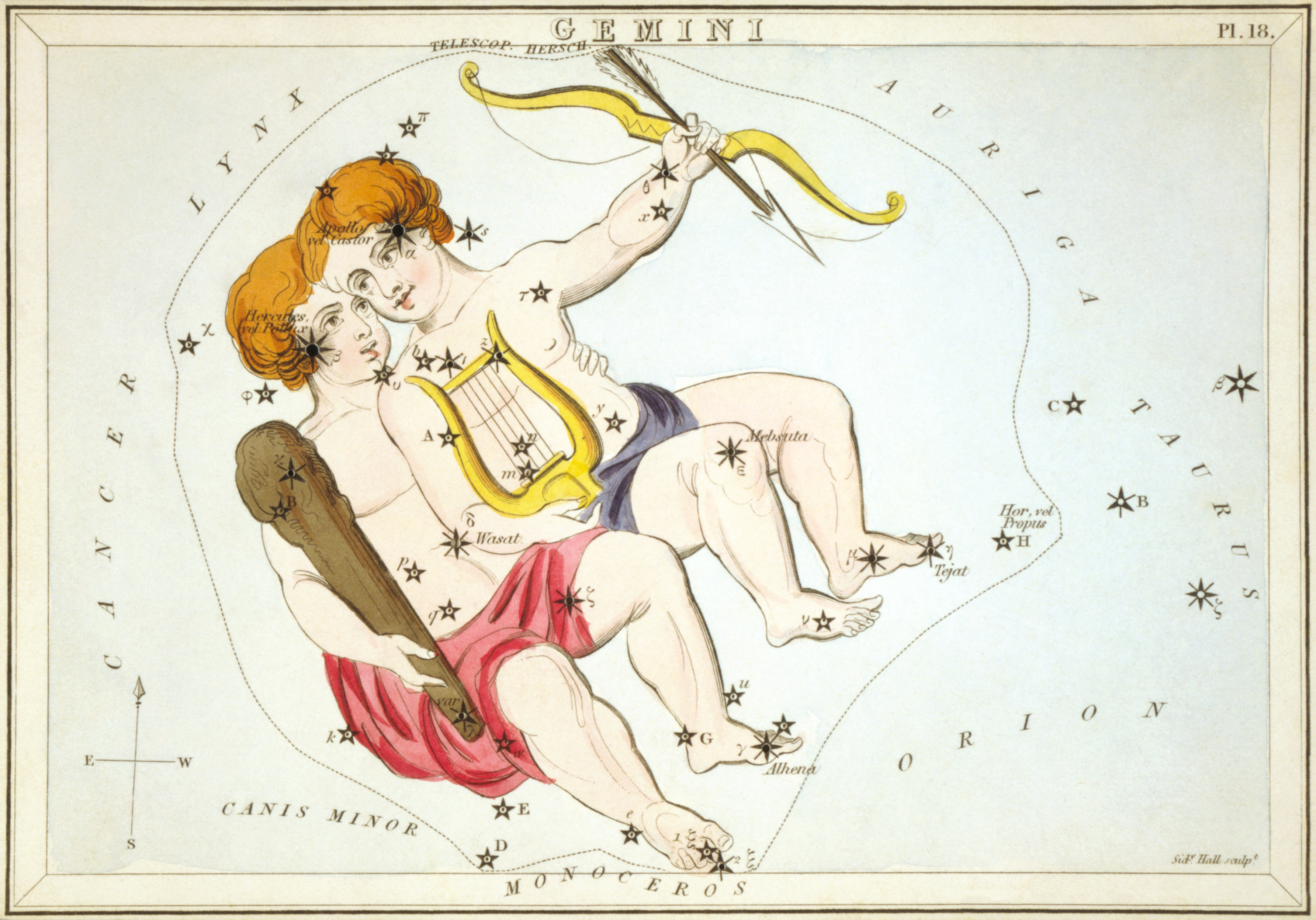 "Gemini", plate 18 in Urania's Mirror, a set of celestial cards accompanied by A familiar treatise on astronomy ... by Jehoshaphat Aspin. London. Astronomical chart, 1 print on layered paper board : etching, hand-colored.